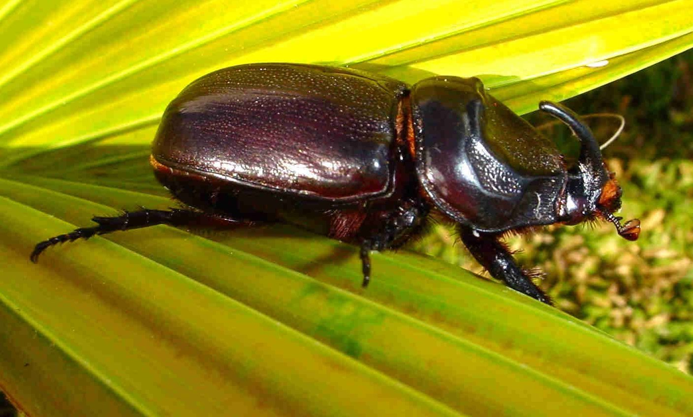 Bourbon rhinoceros beetle (Oryctes monoceros), from Ste Marie, north of Reunion Island